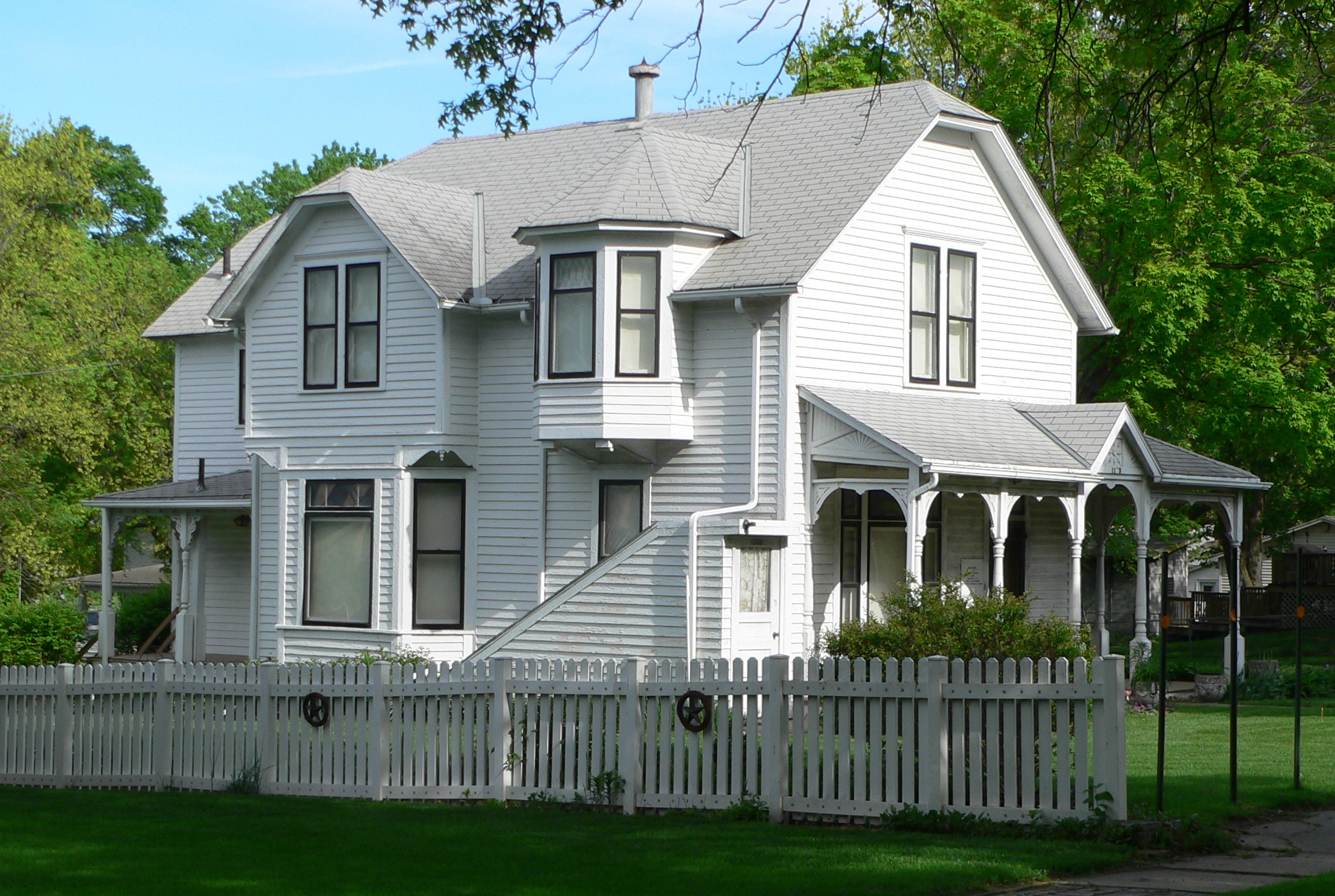 Howard Hanson House at 1163 Linden in Wahoo, Nebraska; seen from the southeast. The Queen Anne house was built in 1888. It is listed in the National Register of Historic Places for its architecture, and as the boyhood home of musician Howard Hanson. It is now operated as a museum.